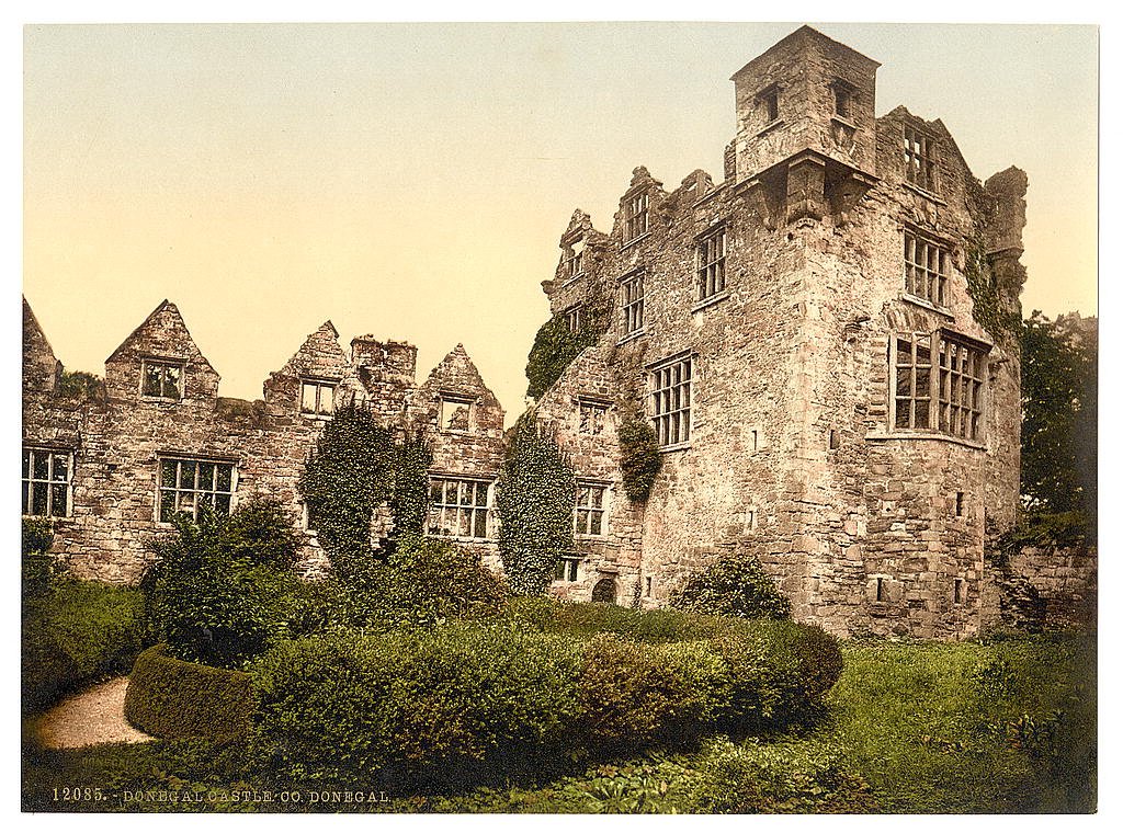 Donegal Castle. Co. Donegal, Ireland